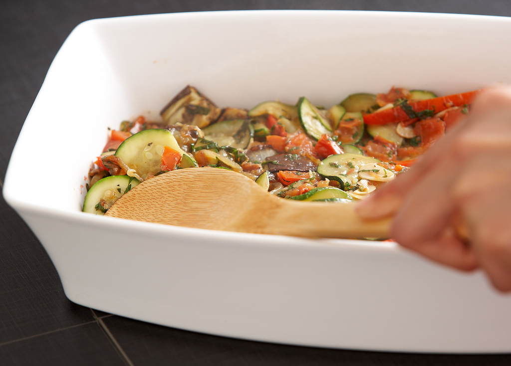 Ratatouille_6of9